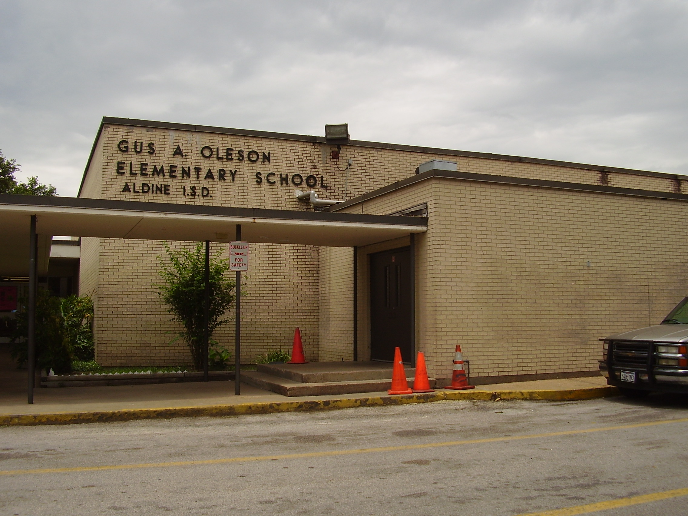 Oleson Elementary School, Harris County, TX